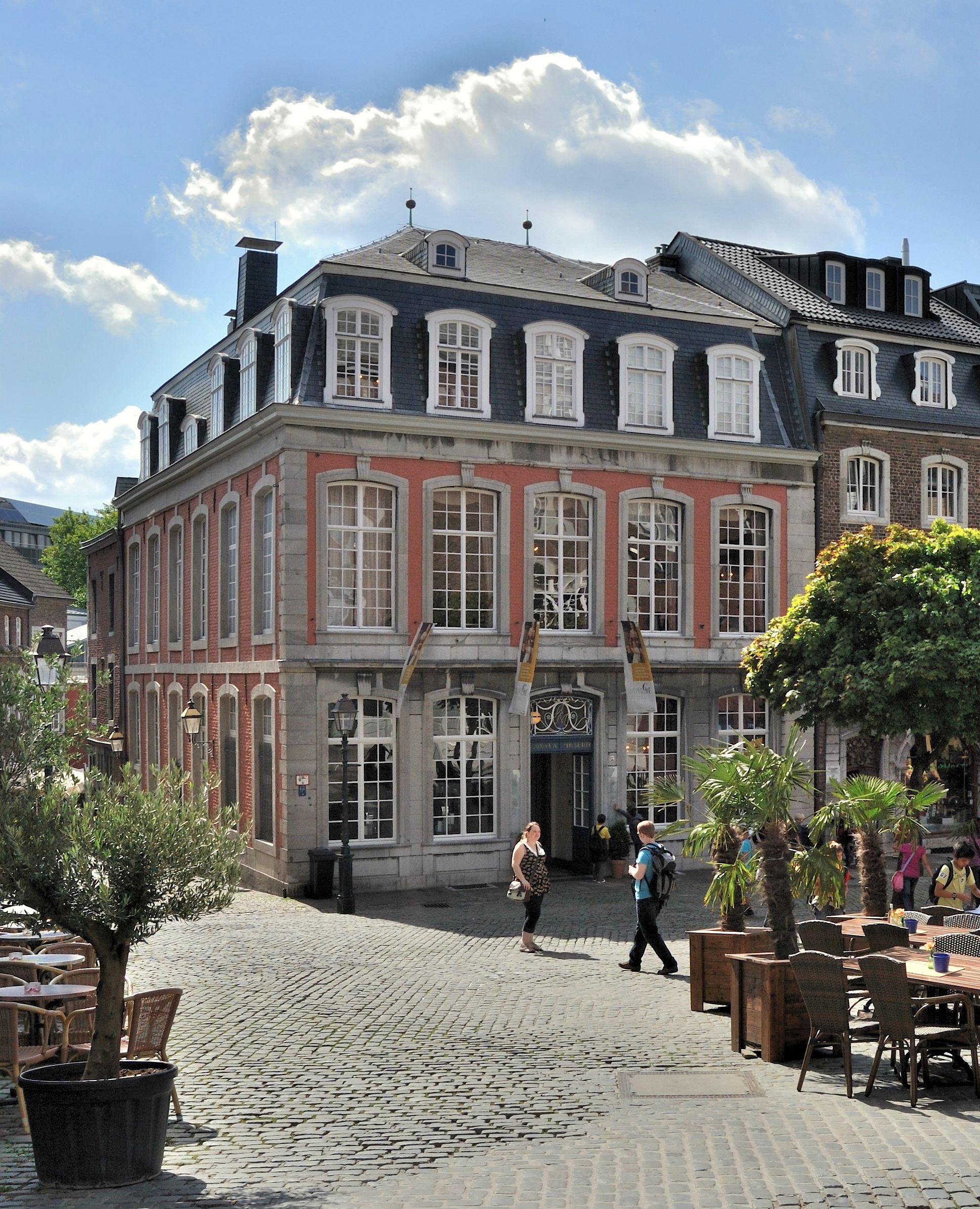 Aachen (North Rhine-Westphalia, Germany) – Couven MuseumThis photograph was taken with a Nikon D3000